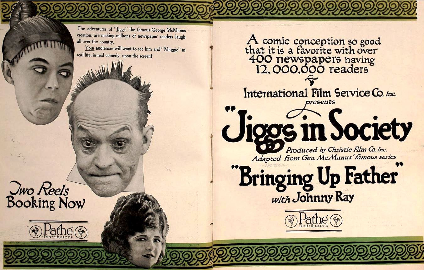 Ad for the comedy short film Jiggs in Society (1920) with Margaret Cullington, Johnny Ray, and Laura La Plante, on pages 2858 and 2859 of the March 27, 1920 Motion Picture News. The film is based upon characters Jiggs and Maggie from the comic strip Bringing Up Father.